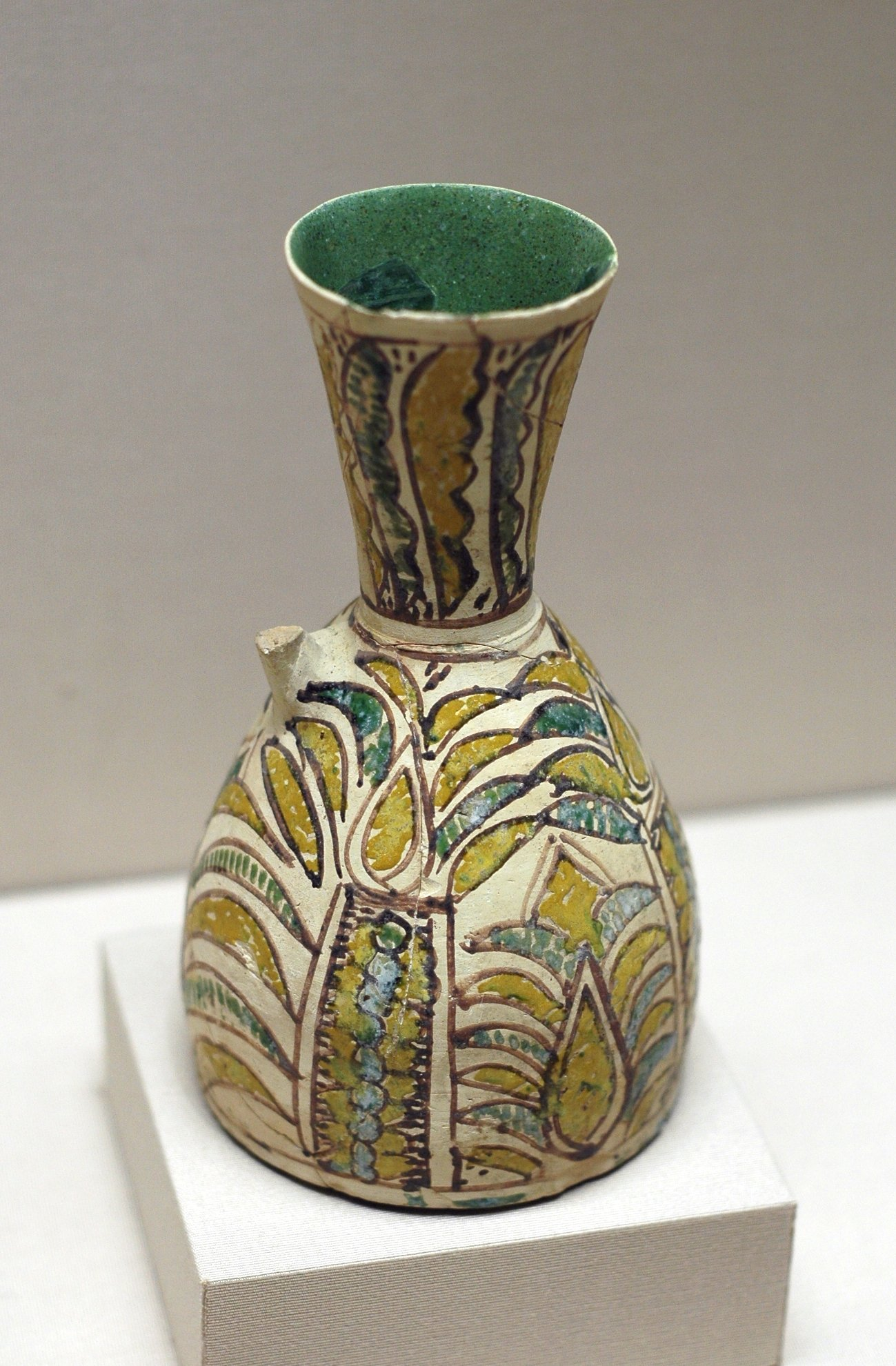 Vase with palmtree